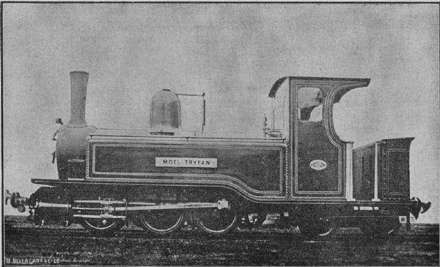 Locomotive Moel Tryfan for the North Wales Narrow Gauge Railways, Vulcan Foundry works photograph